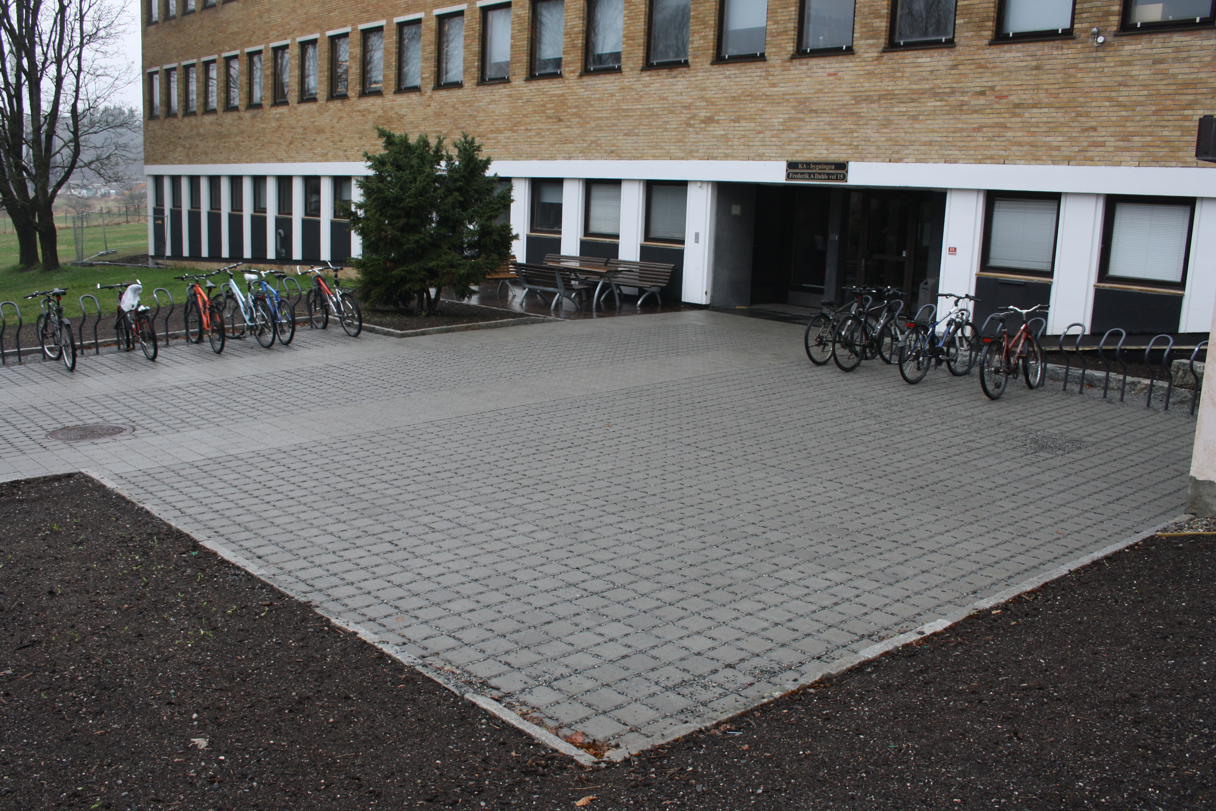 The entrance to the KA-building on Campus Ås (Norwegian University of Life Sciences) is built with permeable paving.